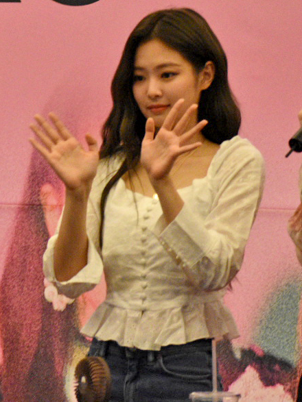 BLACKPINK fansign event at the AK Plaza in Bundang on June 24, 2018.